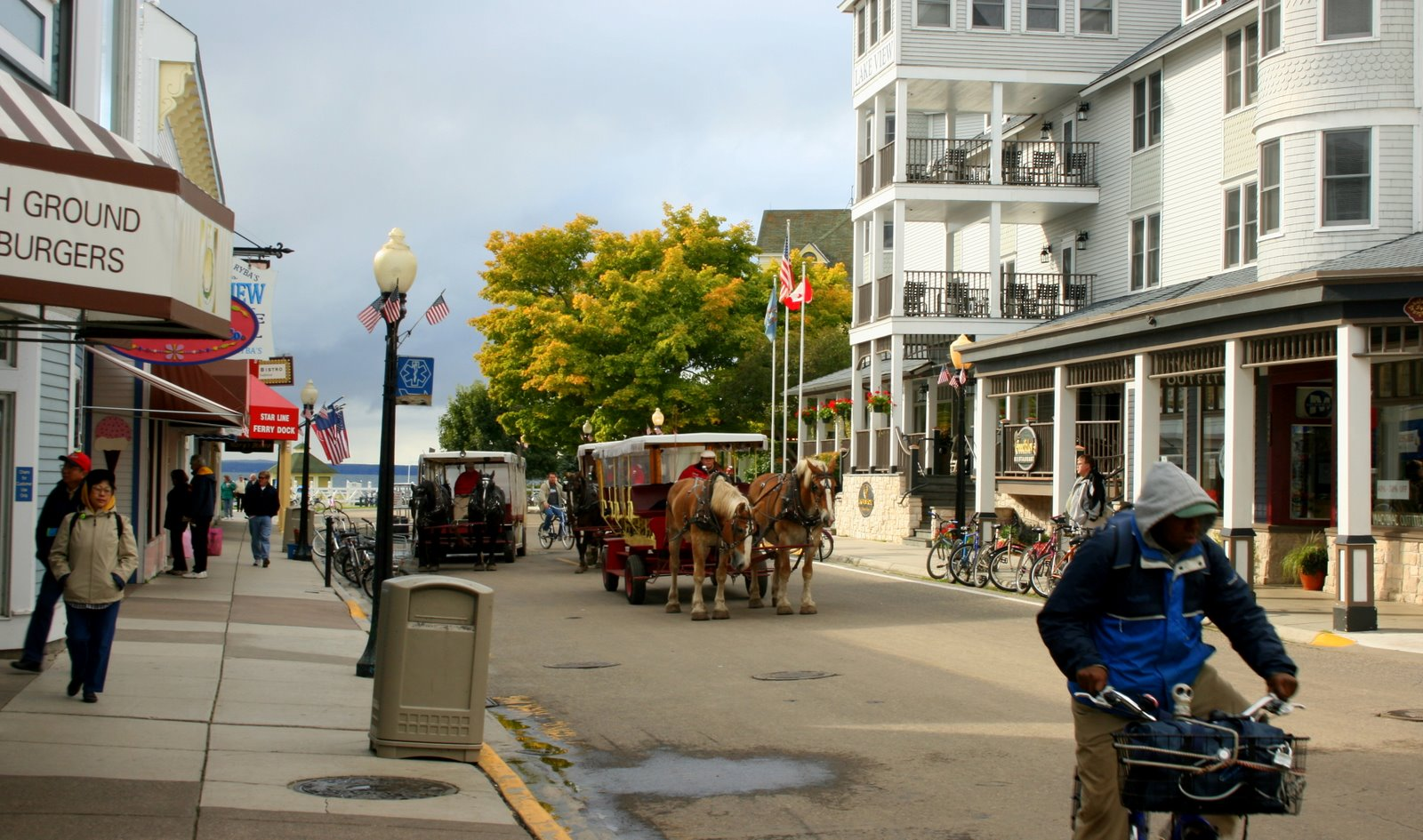 Two of the modes of transport on Mackinac Island, horse-drawn carriages and bicycles.